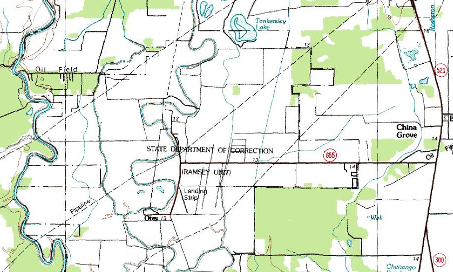 USGS topographic map of the Ramsey Units in Texas: Ramsey (Ramsey I), Stringfellow (Ramsey II), and Terrell (Ramsey III).